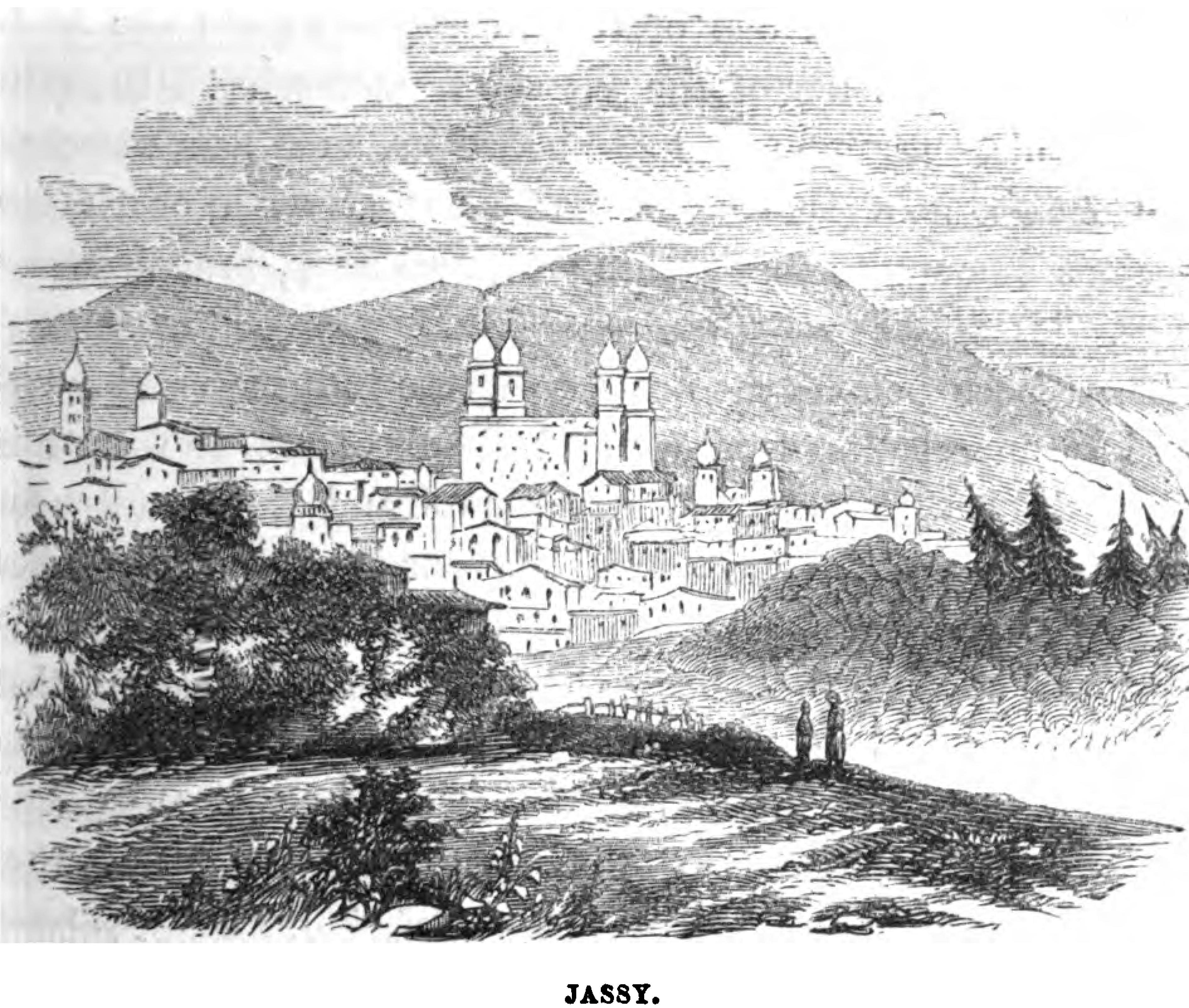 Edmund Spencer, Turkey, Russia, the Black Sea, and Circassia